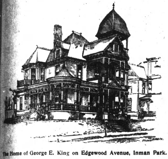 George E. King home, Inman Park, Atlanta, 1895